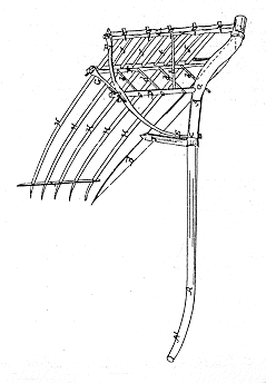 This is a drawing from a United States patent, issued on March 10, 1857 to Samuel Warren of Lebanon Pennsylvania, for a light cradle strengthened by extra bracing.